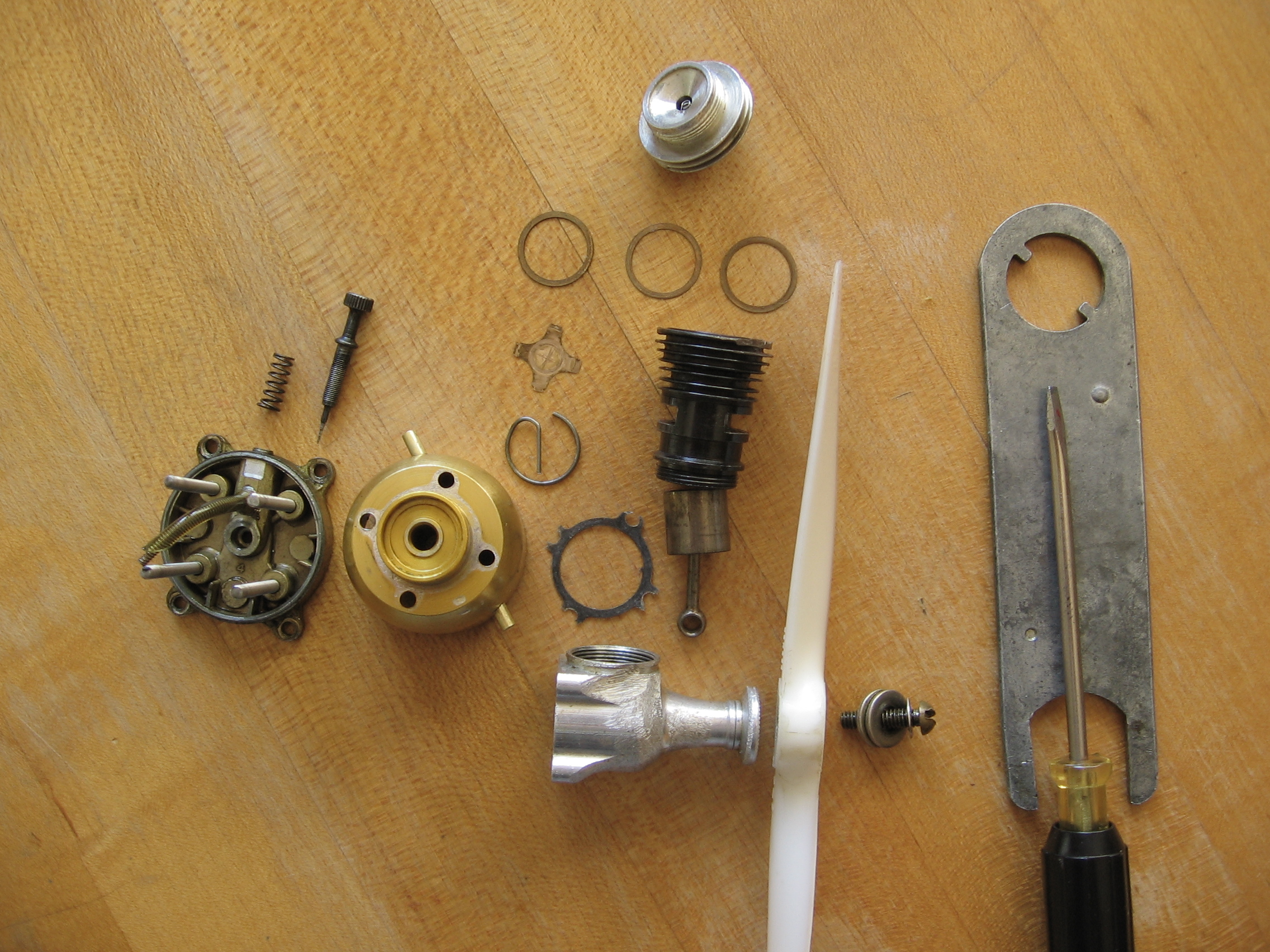 I bought a Cox RTF model and some spare engines and parts in 1979. Most of these parts were among those. There has been some part shuffling, but nothing other than the glow head has needed replacing.